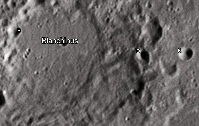 Blanchinus lunar crater as seen from Earth with satellite craters labeled